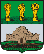 Gorodishche (Penza oblast), coat of arms (1781)